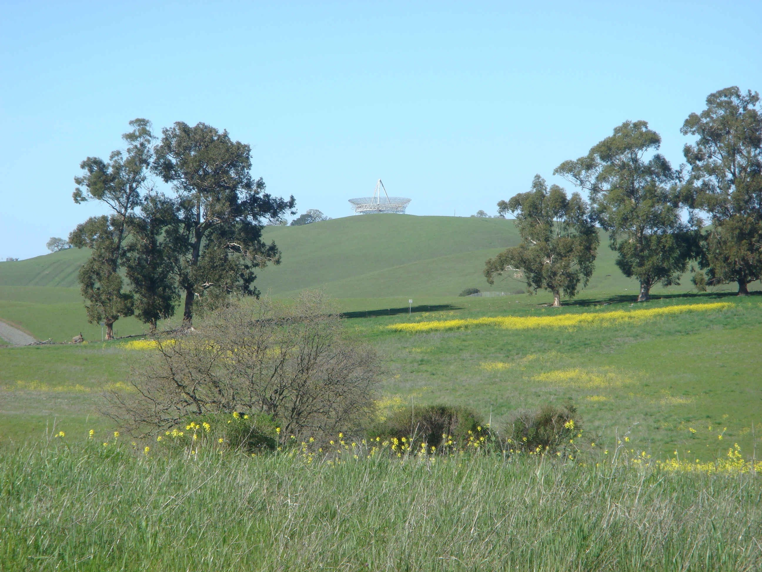 View from Arastradero Preserve in Palo Alto, California, USA. You can see the satellite dish that belongs to Stanford University (but is not part of the preserve itself)